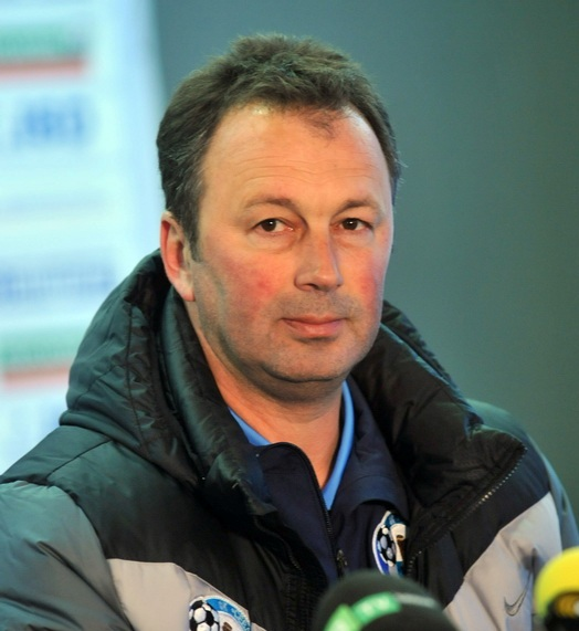 Angel Chervenkov